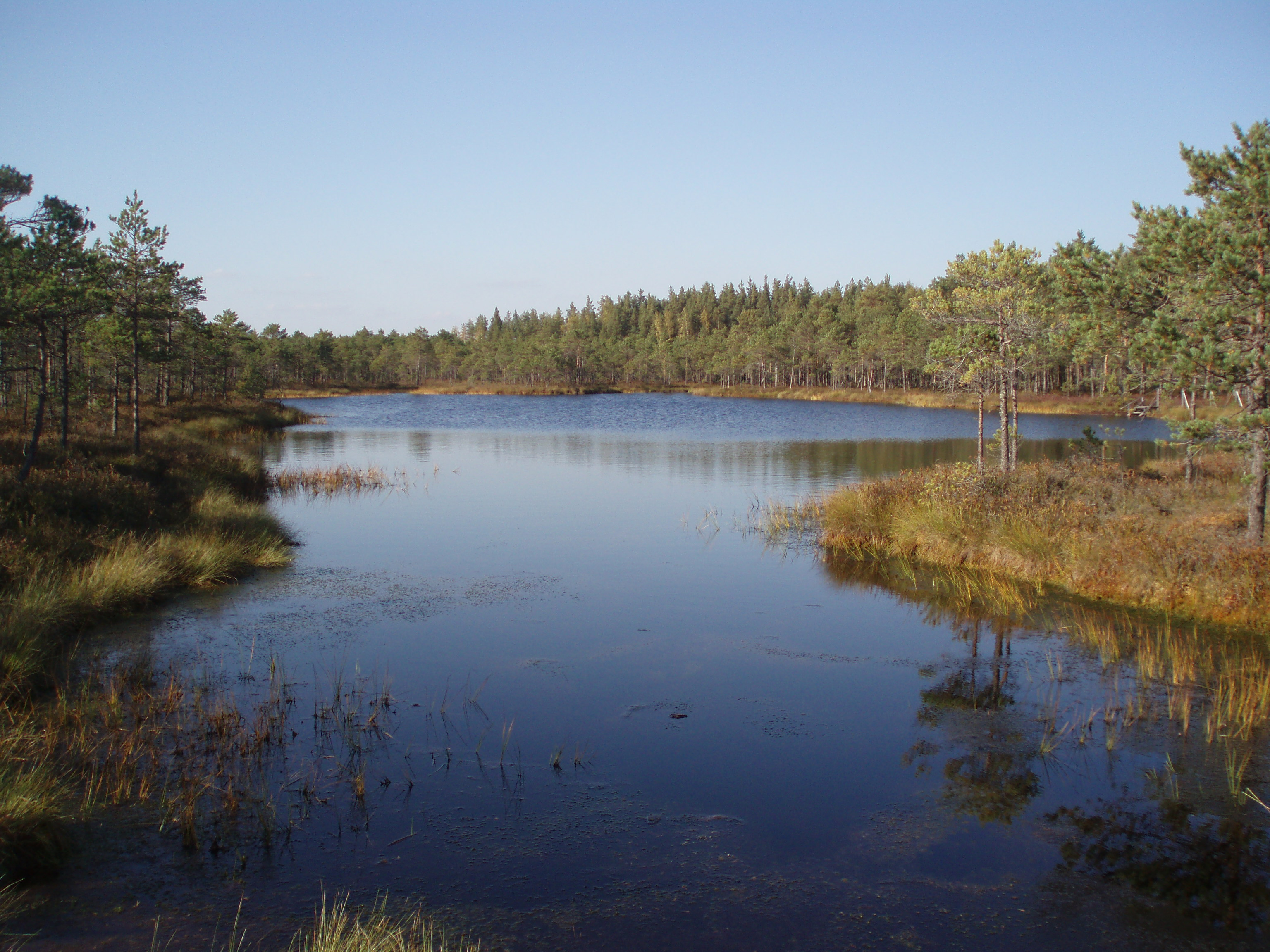 Meenikunno Bog